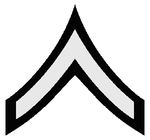 I created this image using Photoshop